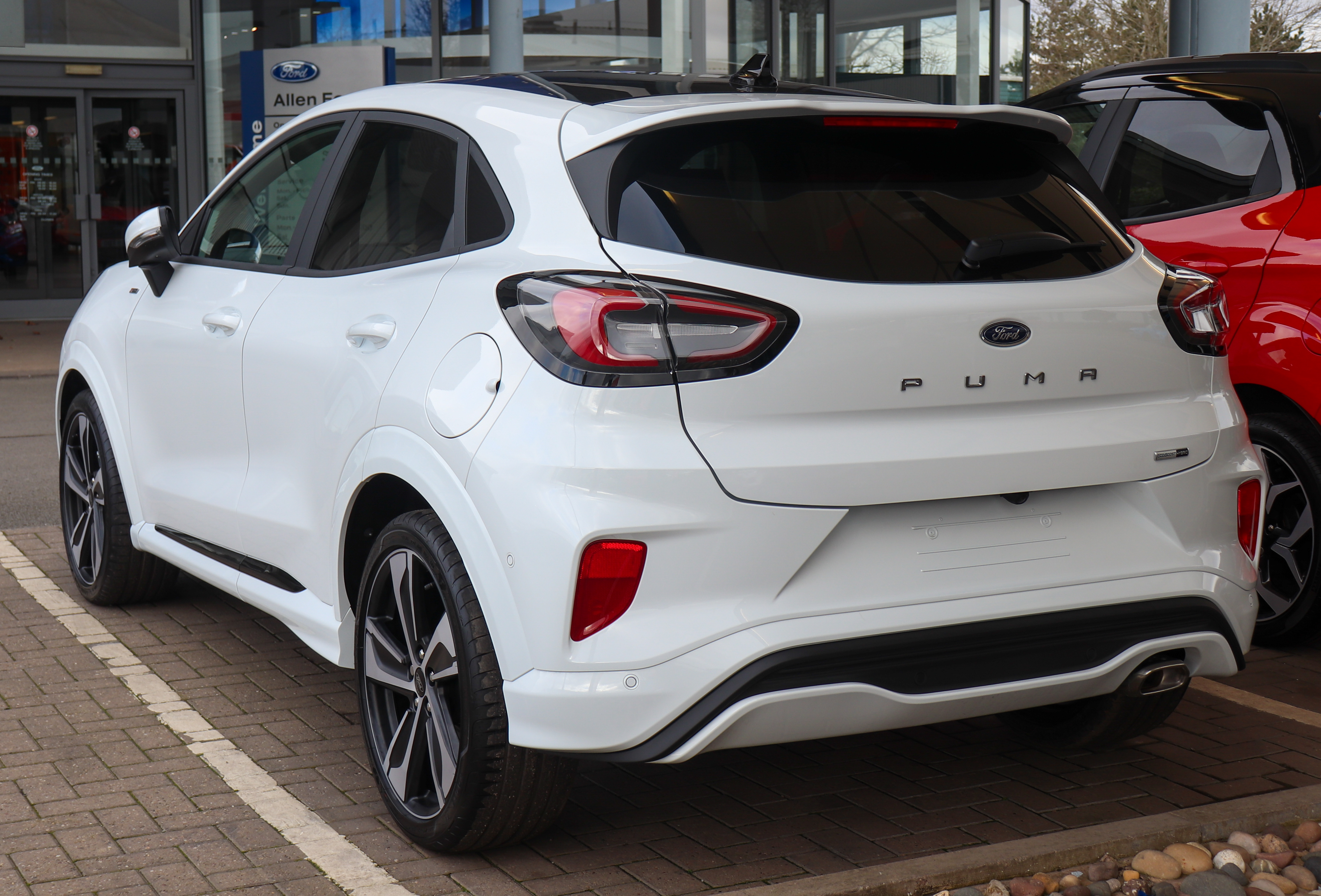 2020 Ford Puma ST-Line X EcoBoost Hybrid 1.0 Rear Taken in Leamington Spa